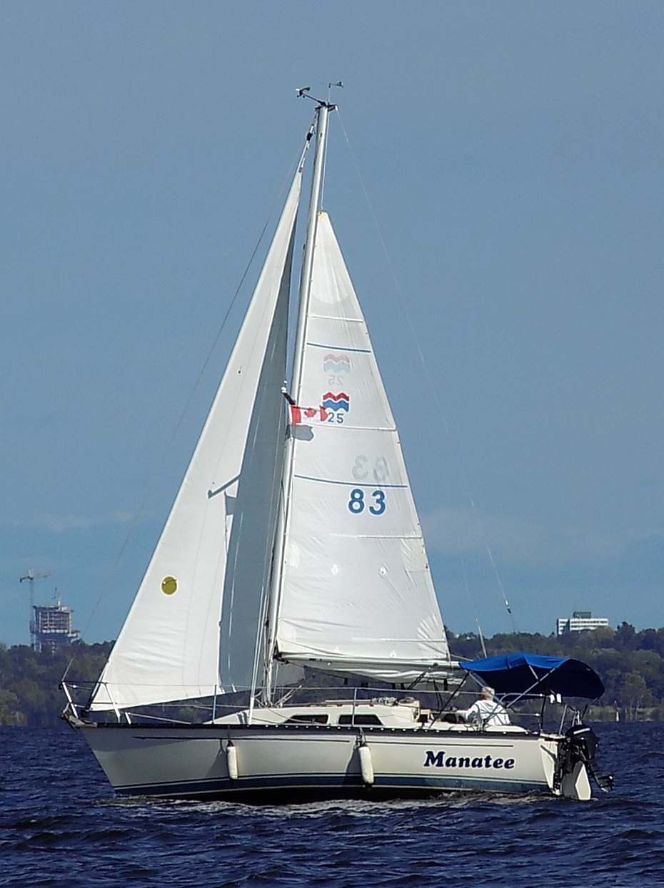 A Mirage 25 sailboat named Manatee, with mainsail reefed.